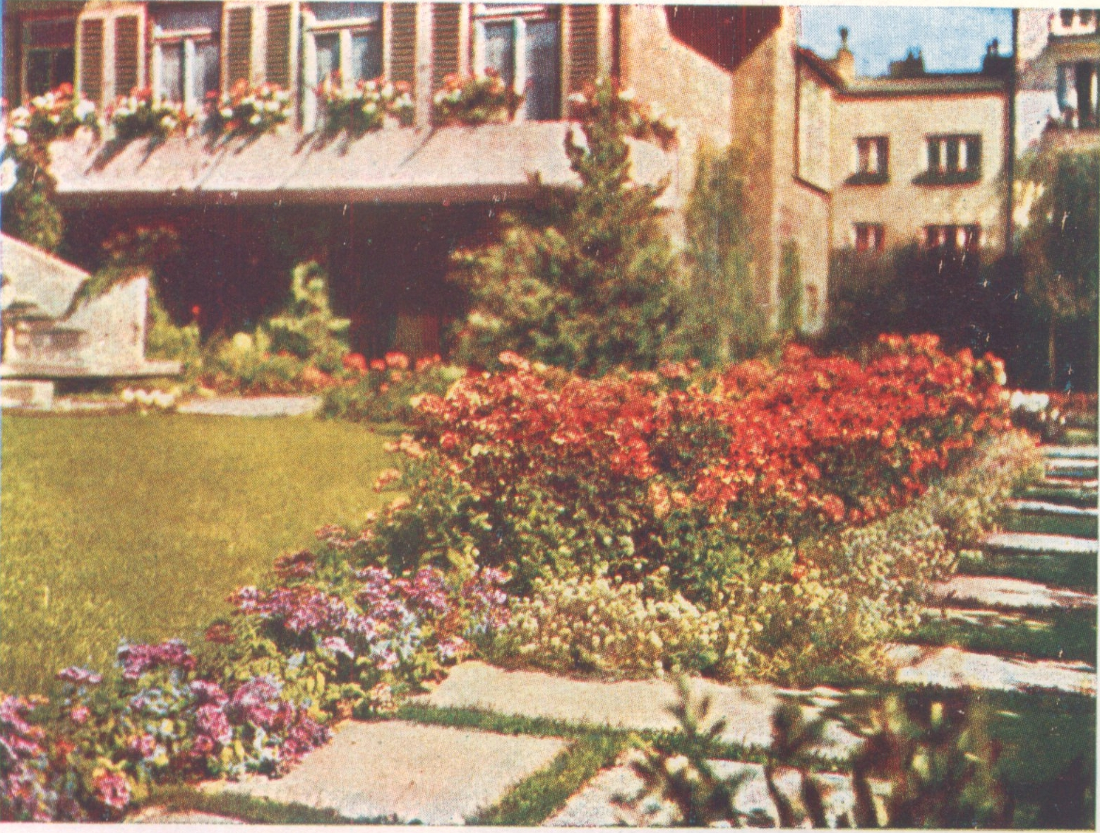 Warsaw, Poland, Kielecka 33a str. Agfacolor 1937